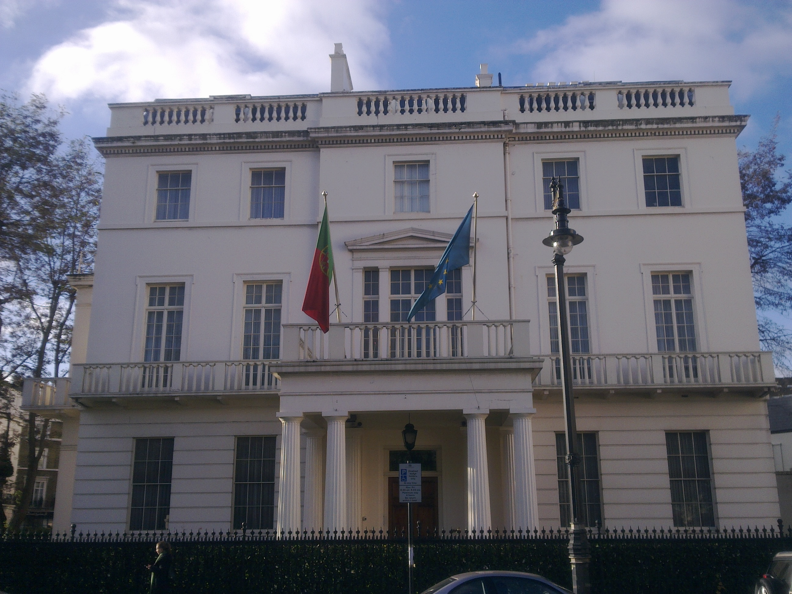 Embassy of Portugal in London 1